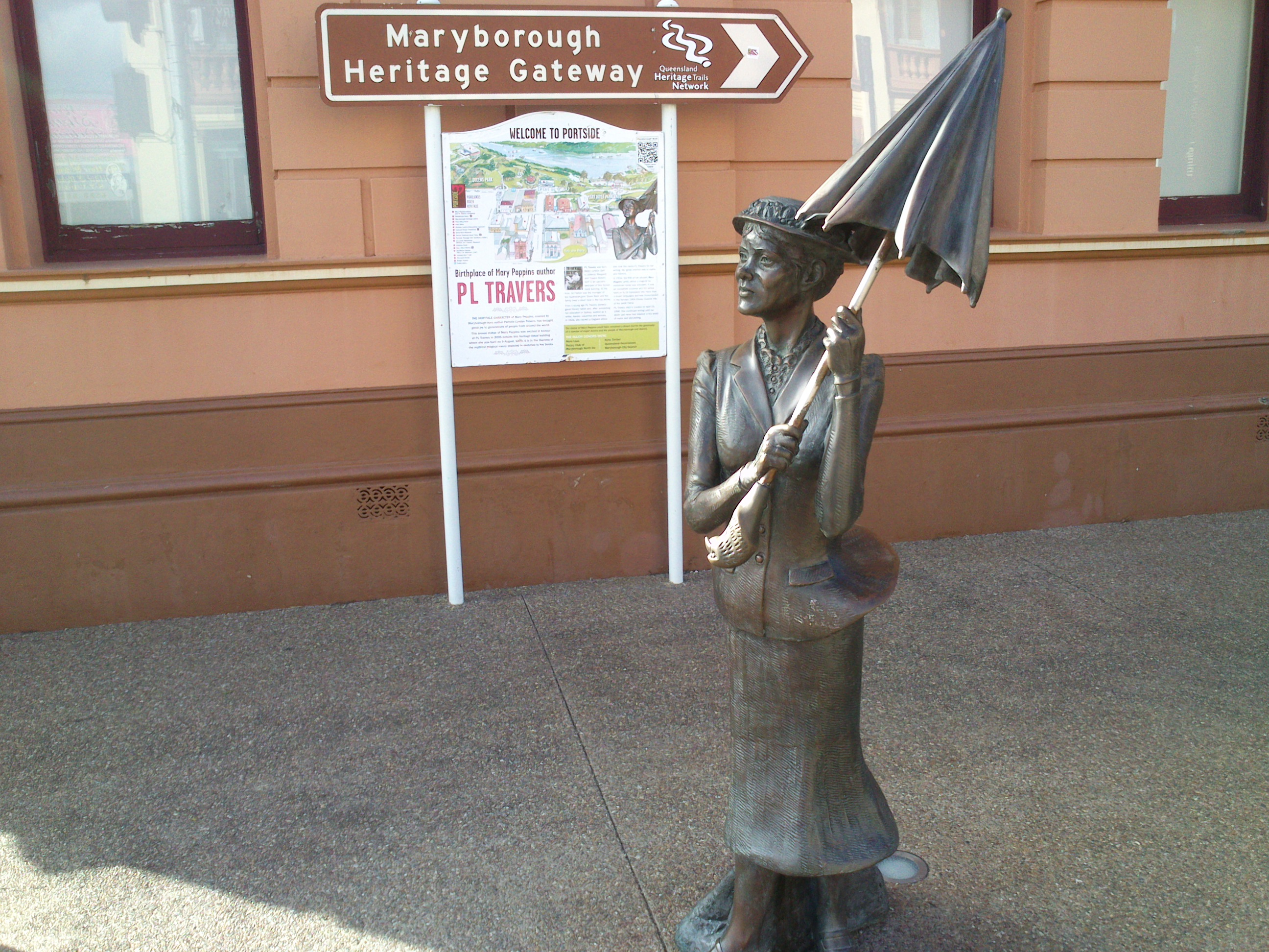 Statue of Mary Poppins. See description